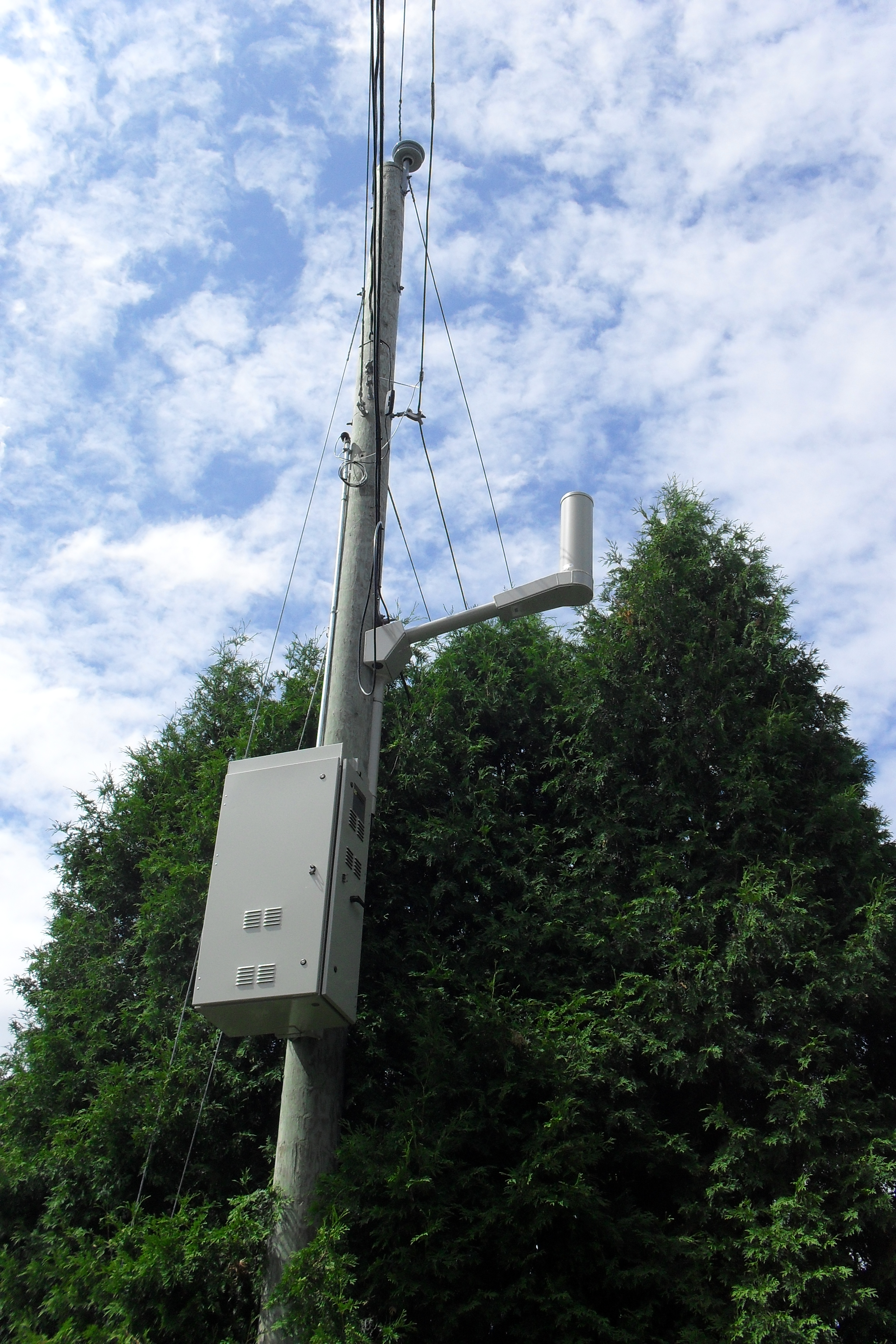 Videotron DAS